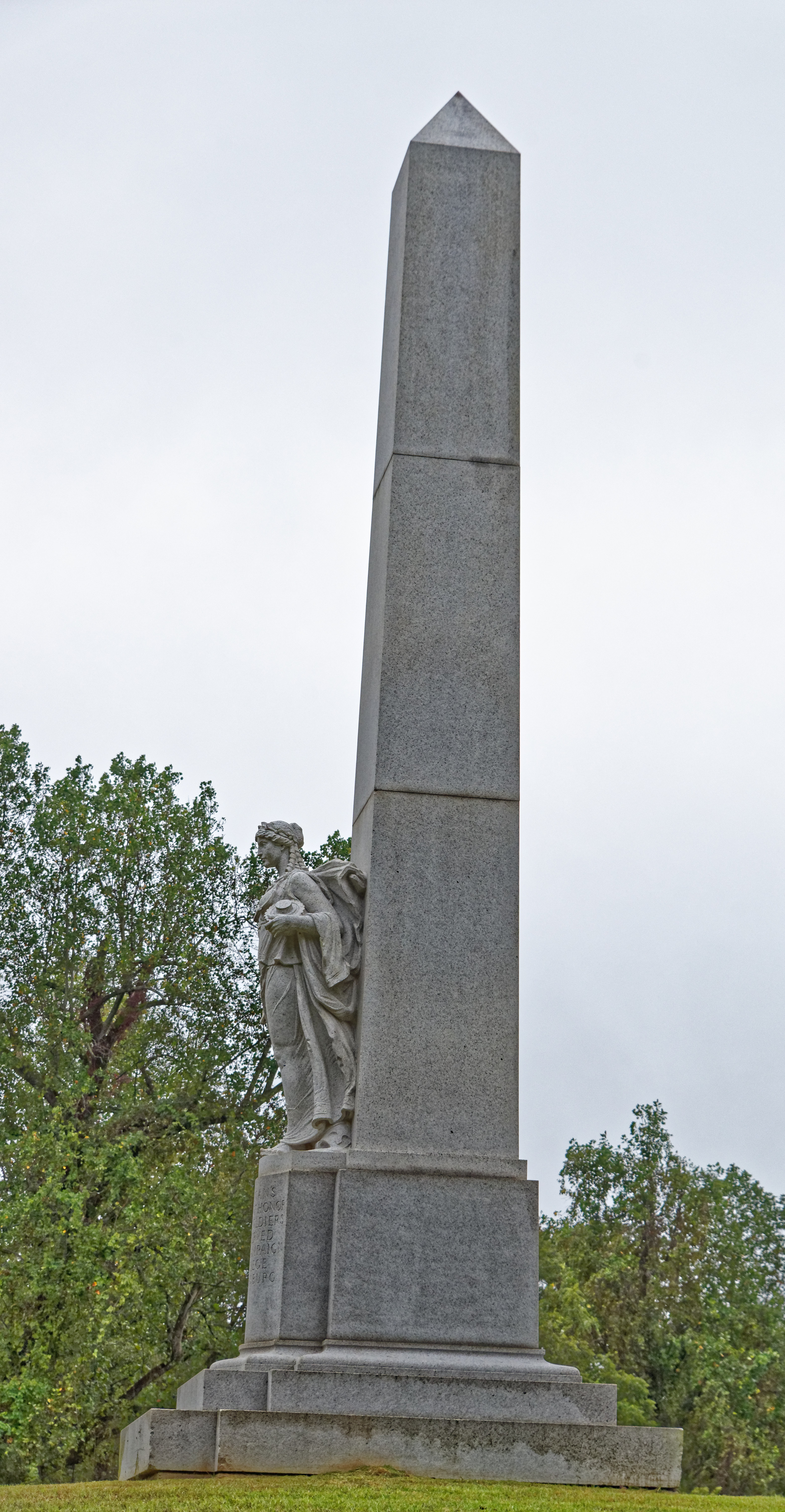 Michigan Memorial at Vicksburg National Military Park in Vicksburg, Mississippi, US